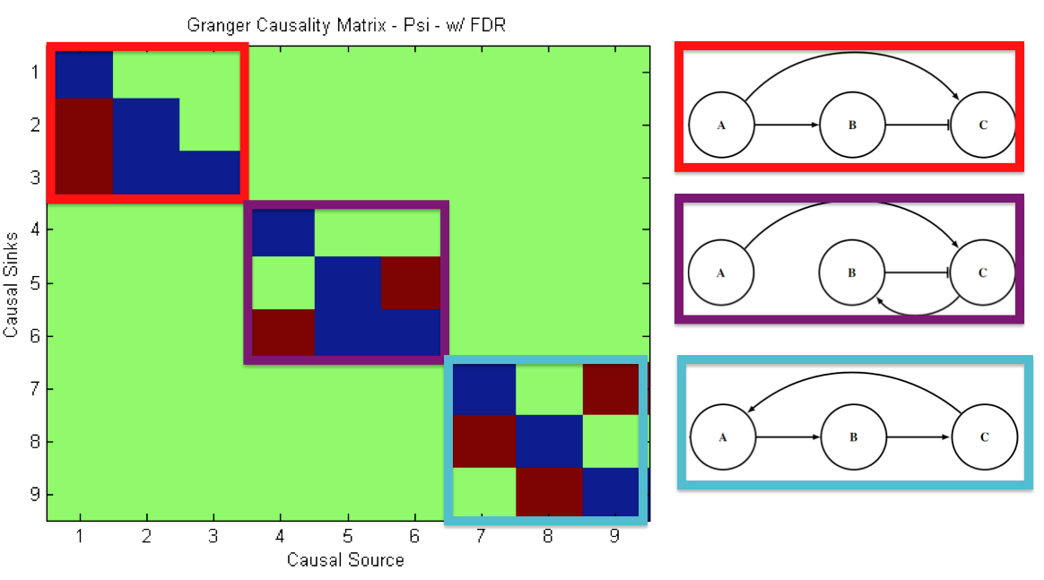 Granger Causality Matrix After Significance Tests